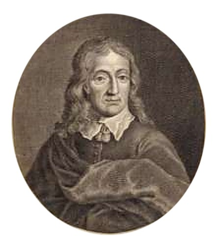 portrait of Georg Andreas Agricola (1672-1738)